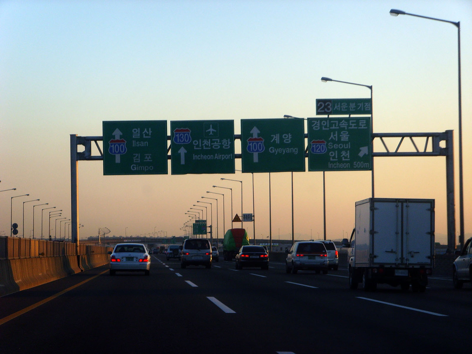 Seoun Junction Terminal Panel in Seoul Ring Expressway